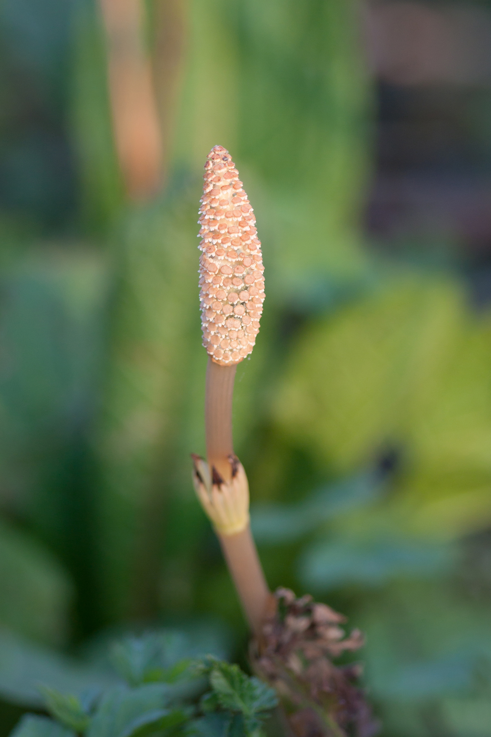 A strobilus of Equisetum arvense.